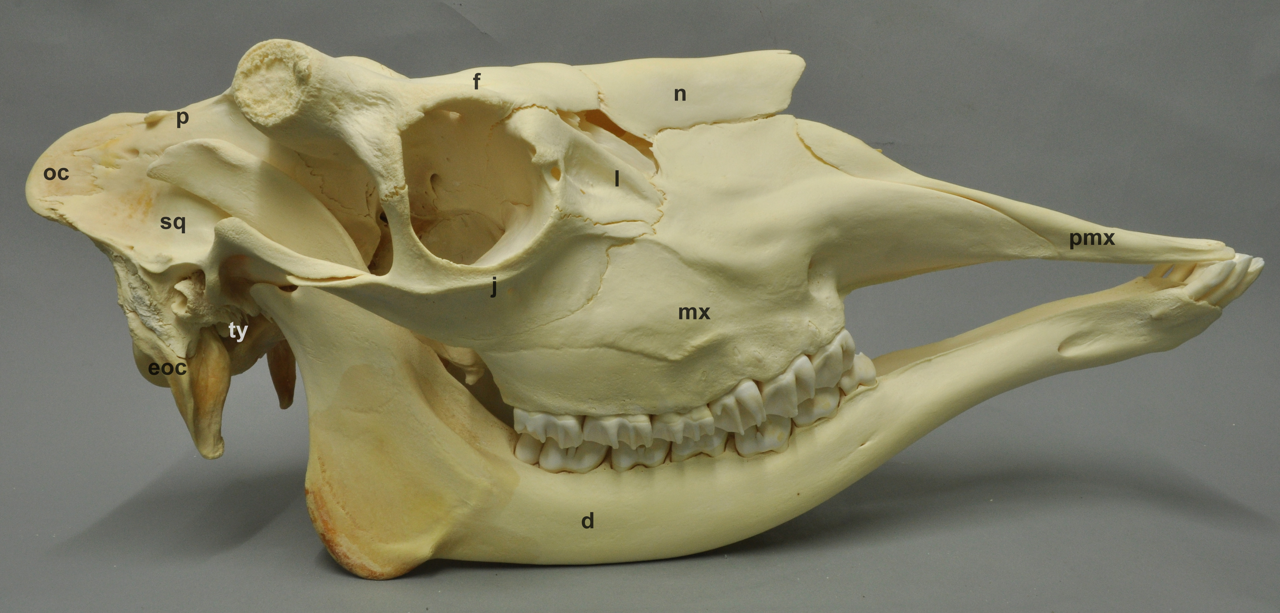 Moose (Alces alces), male, skull in lateral view, Coll. Museum Wiesbaden.Meaning of abbreviations: d = dentary, eoc = exoccipital, f = frontal, j = jugal, l = lacrimal, mx = maxilla, n = nasal, oc = occipital, p = parietal, pmx = premaxilla, sq = squamosal, ty = tympanic bone.